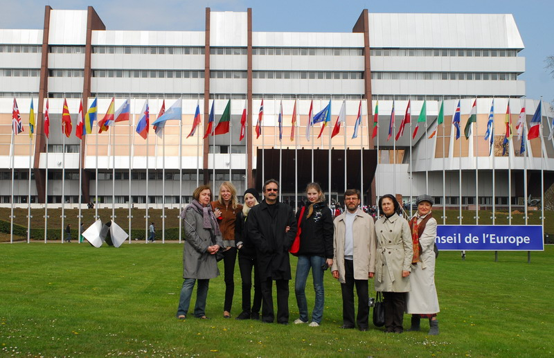 Technological college №14 - Training in Strasbourg